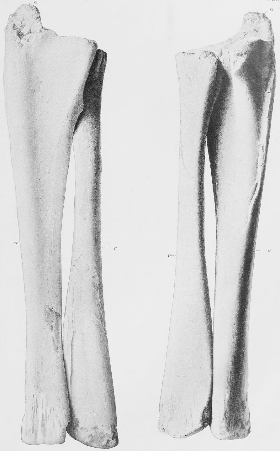 Ulna and radius of Trachodon (Pteropelyx) marginatus, now assigned to Stephanosaurus marginatus, from the same individual as the humerus.